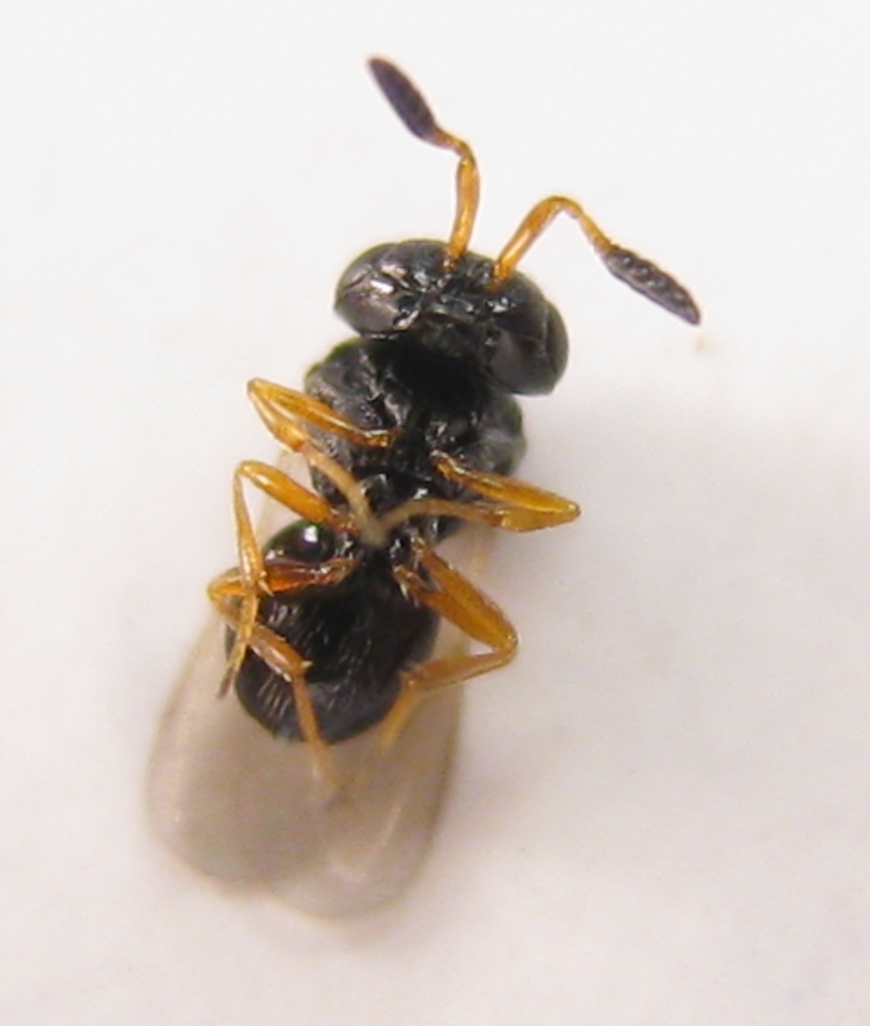 Stinkbug egg parasitoid, Trissolcus edessae. Female with bicolored antennae. Size: 1-1.5 mm. Churchville Nature Center, Bucks County, Pennsylvania, USA.